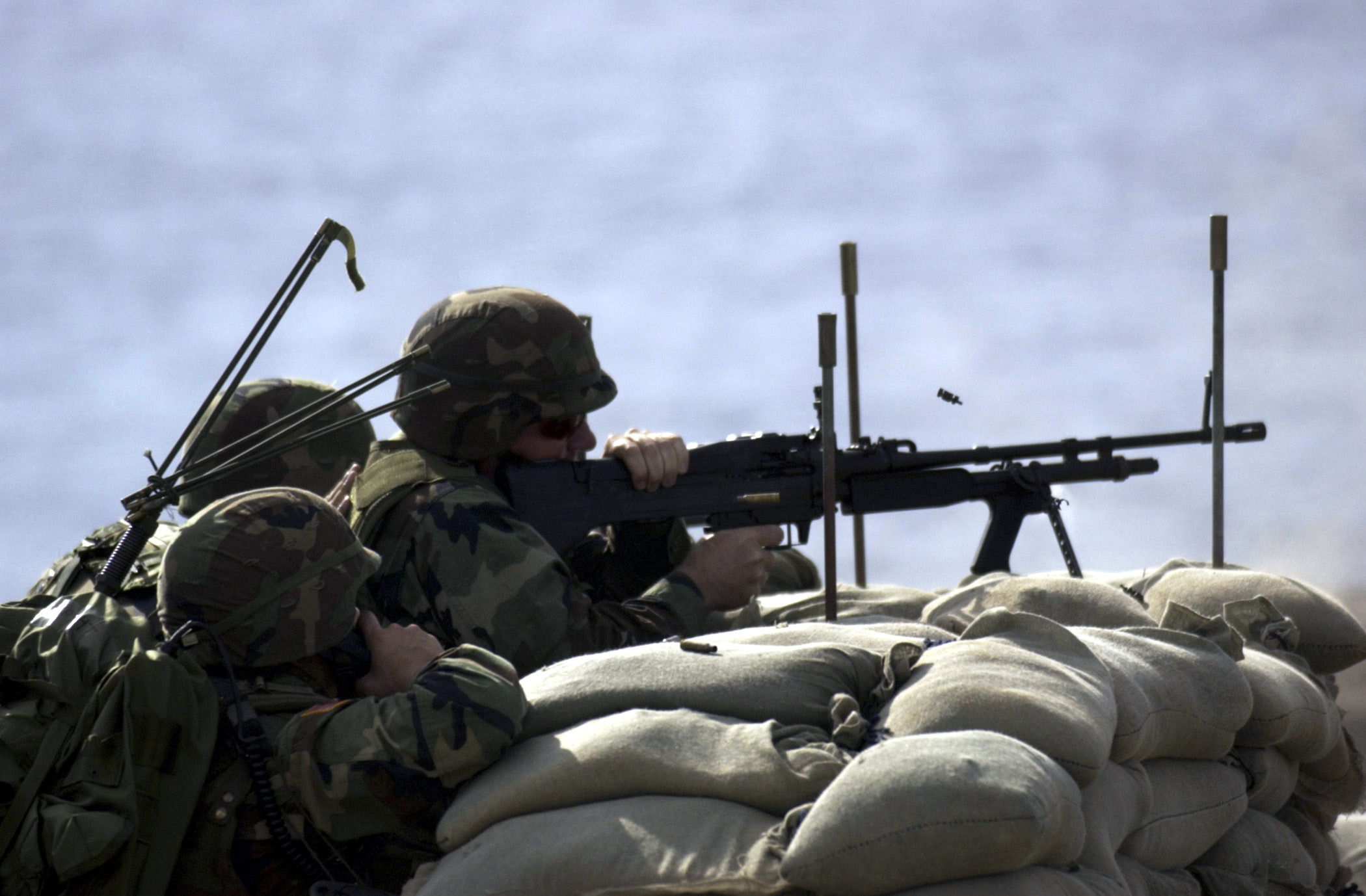 A sailor fires a M-60 machine gun during a live-fire exercise at the Mobile Inshore Underwater Warfare Site (MIUW) at Guantanamo Bay, Cuba.